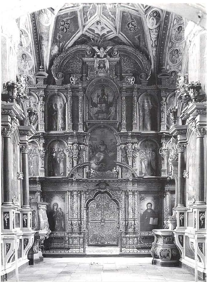 Photograph